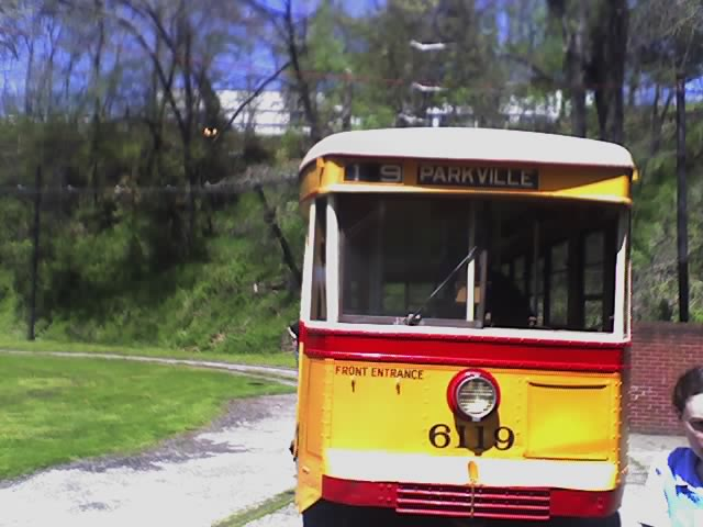 A historic No. 19 streetcar at the Baltimore Streetcar Museum, taken on site for any pertinent articles